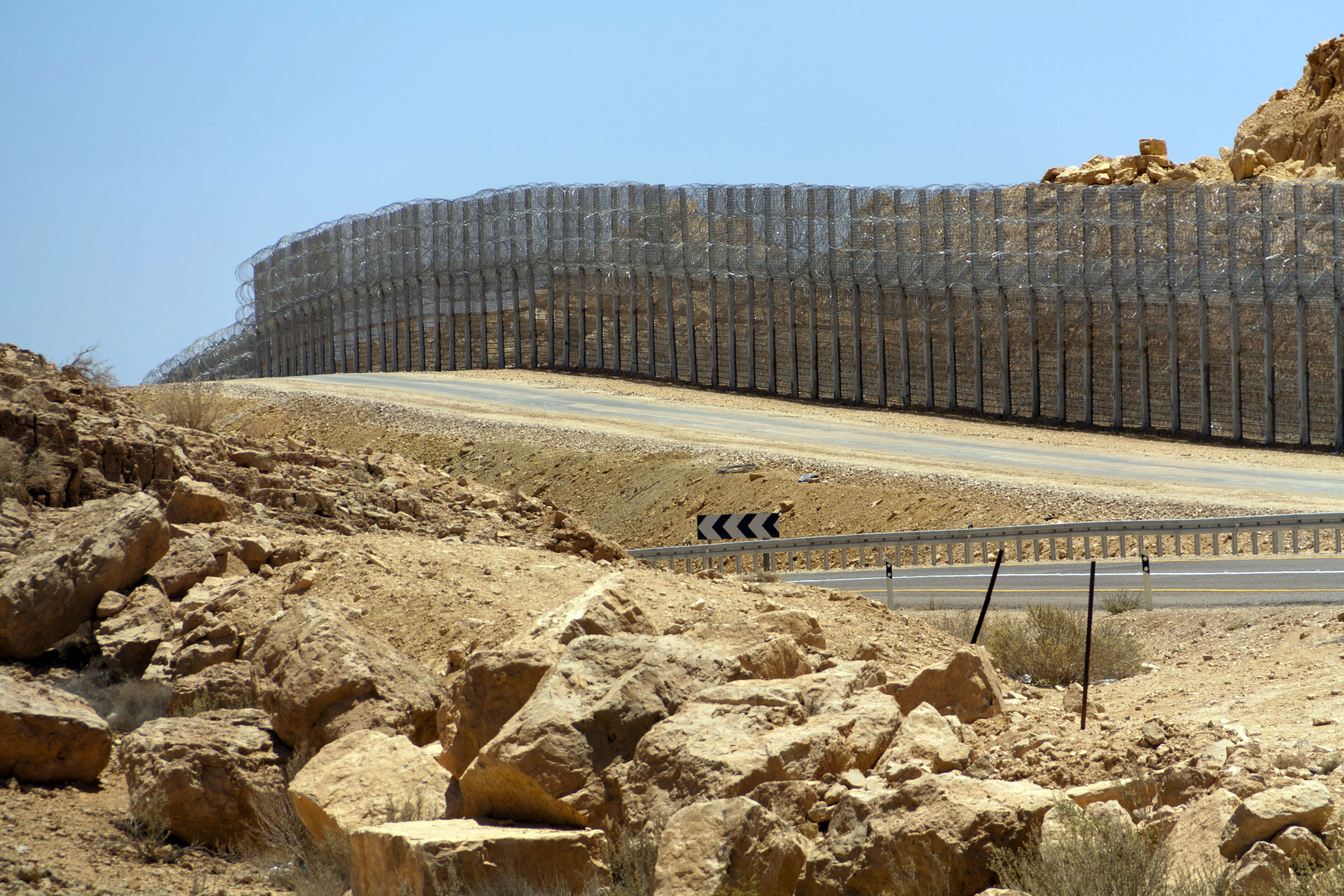 Area of the 2011 southern Israel attacks, and the Israel-Egypt barrier that was built in 2012